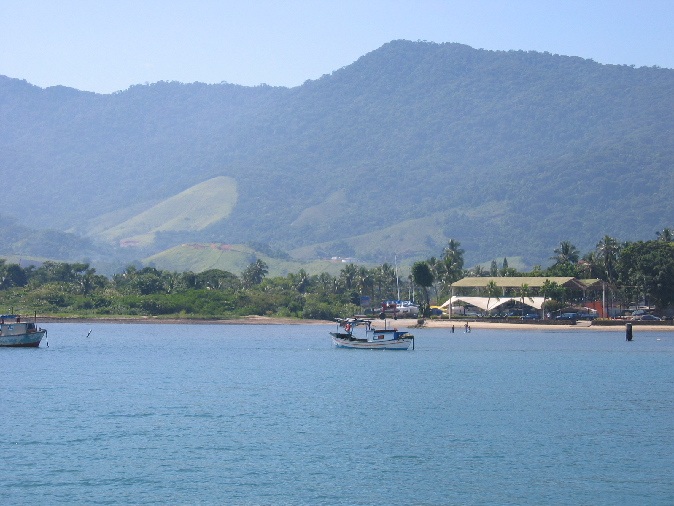 Taken on March/2005 from the ferry-boat arriving at Ilhabela (Brazil) viewing Pereque Beach